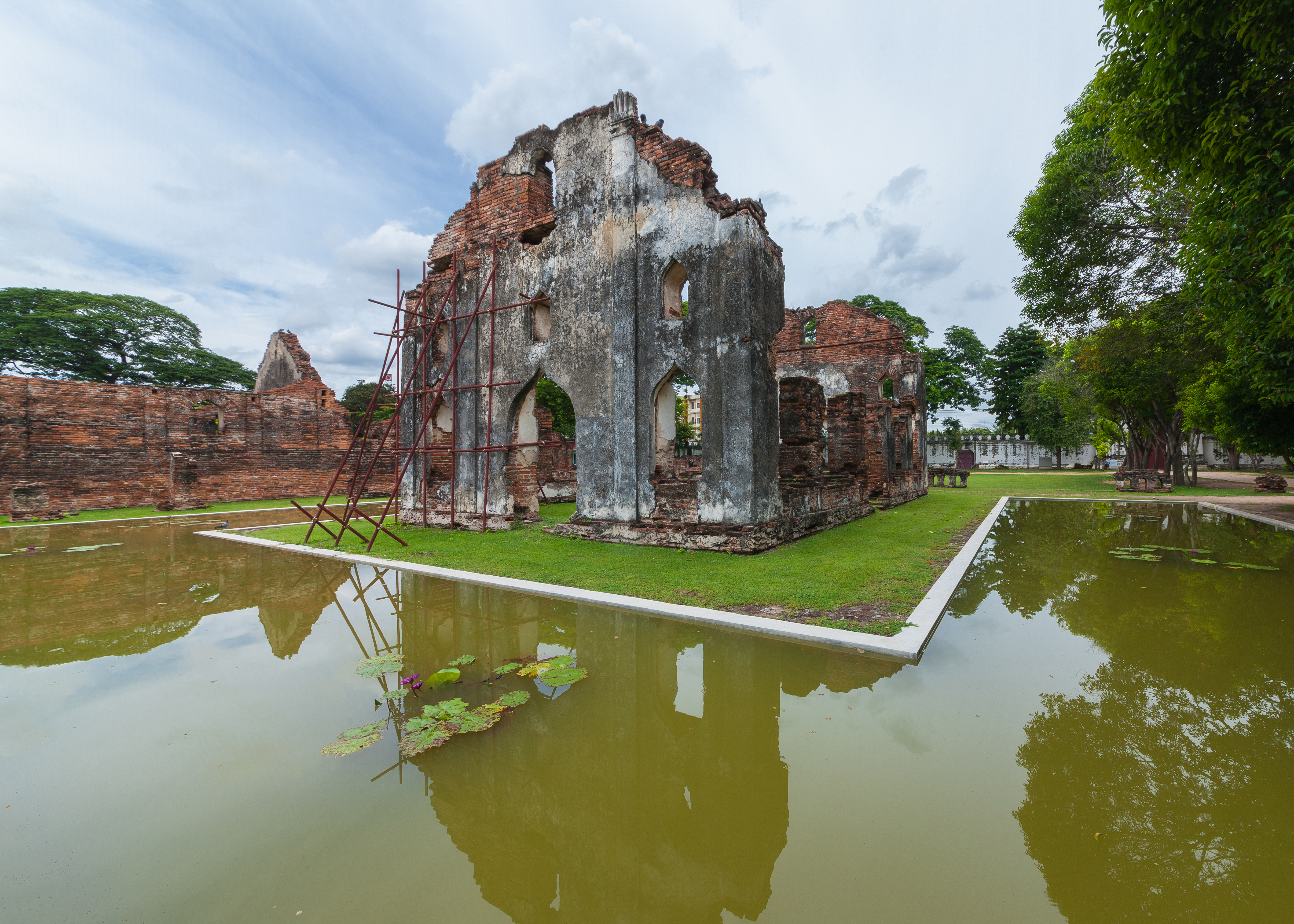 The Reception Hall, for Foreign Visitors at Narai Ratcha Niwet, Lopburi.